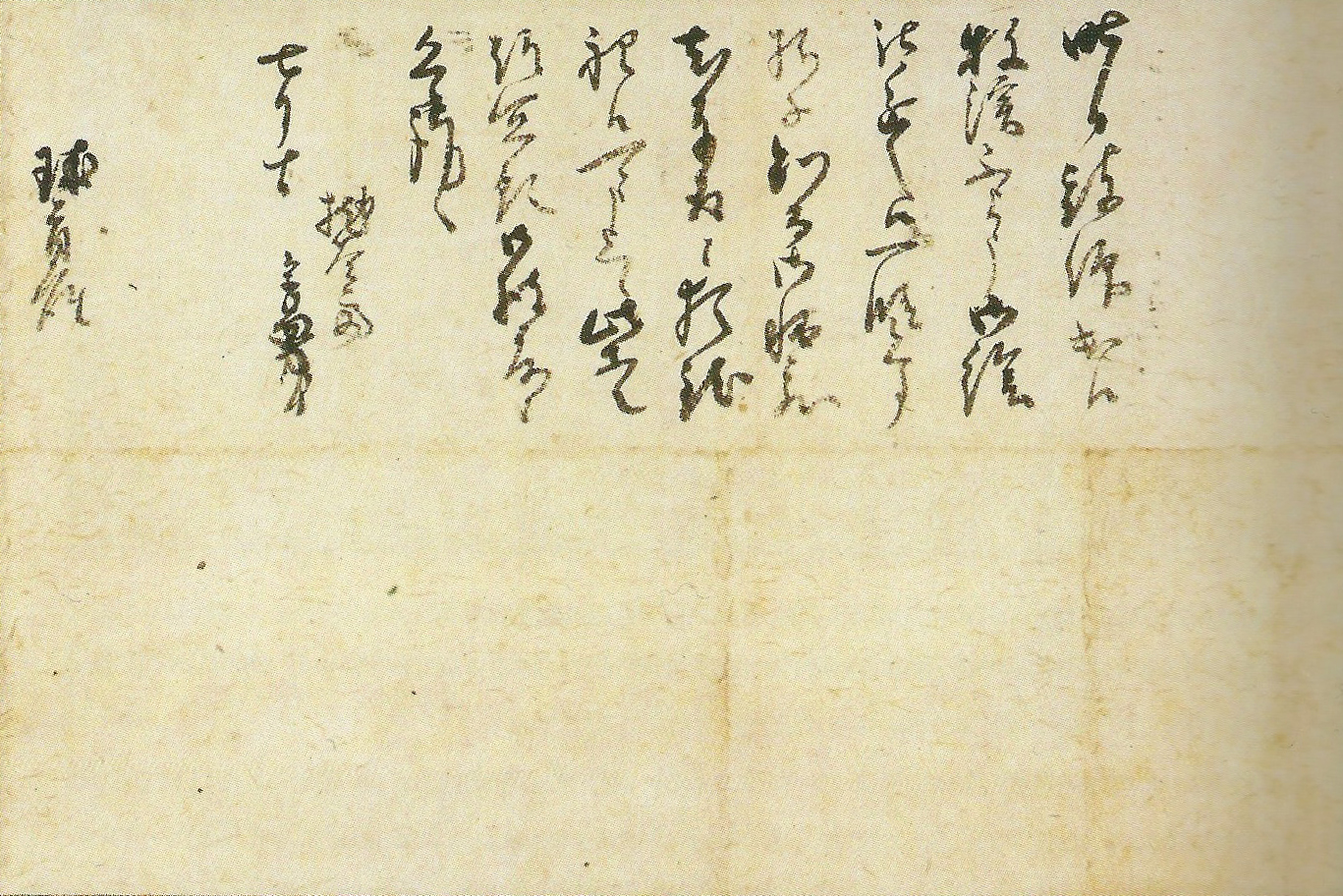 Letter of authentication by Sen no Rikyu for the painting of a hibiscus by Muqi, donated by Hideyoshi to Daitokuji